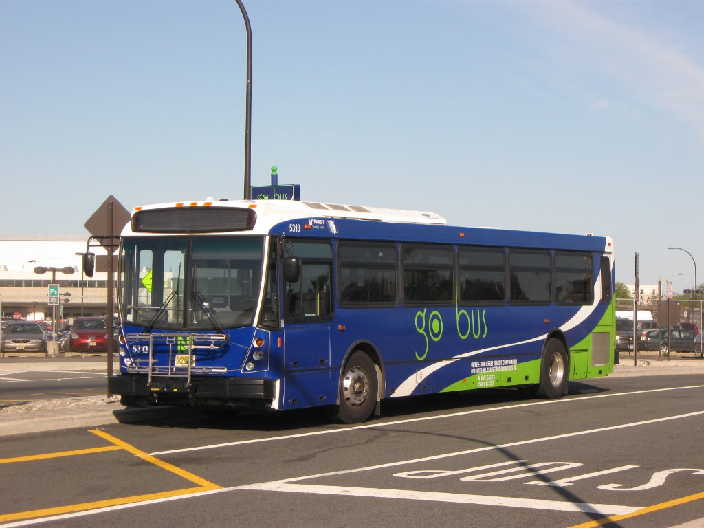 New Jersey Transit NABI #5313, in gobus livery, lays over at Newark Airport's North Area.